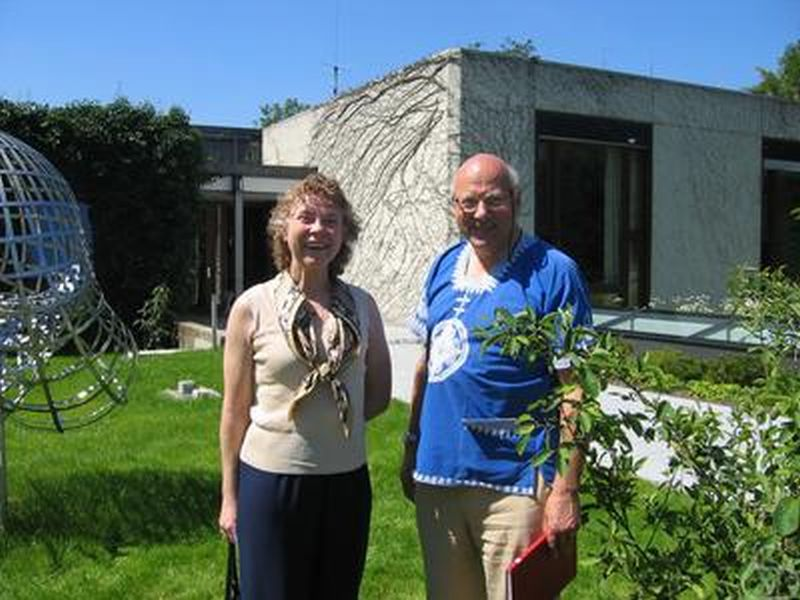 Cheryl Praeger (left), Peter Neumann (right), Oberwolfach 2007, Workshop Permutation Groups